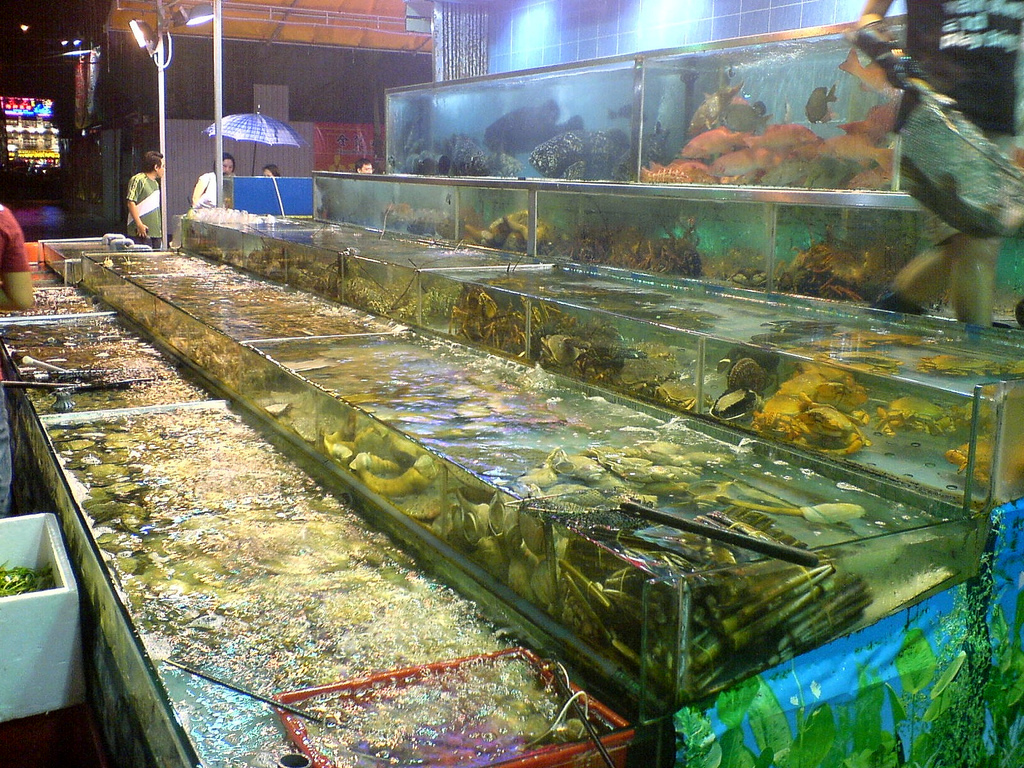 Cantonese restaurant seafood section